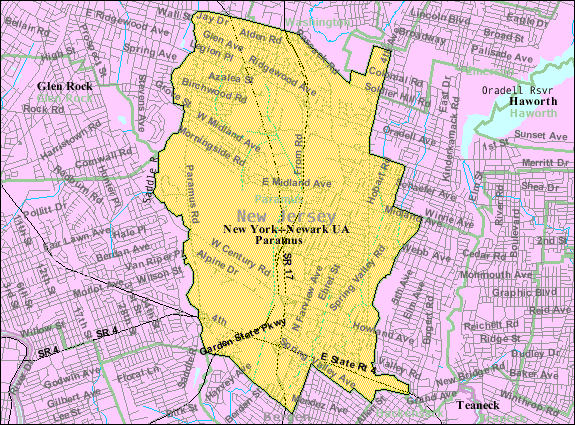 U.S. Census Bureau map of Paramus